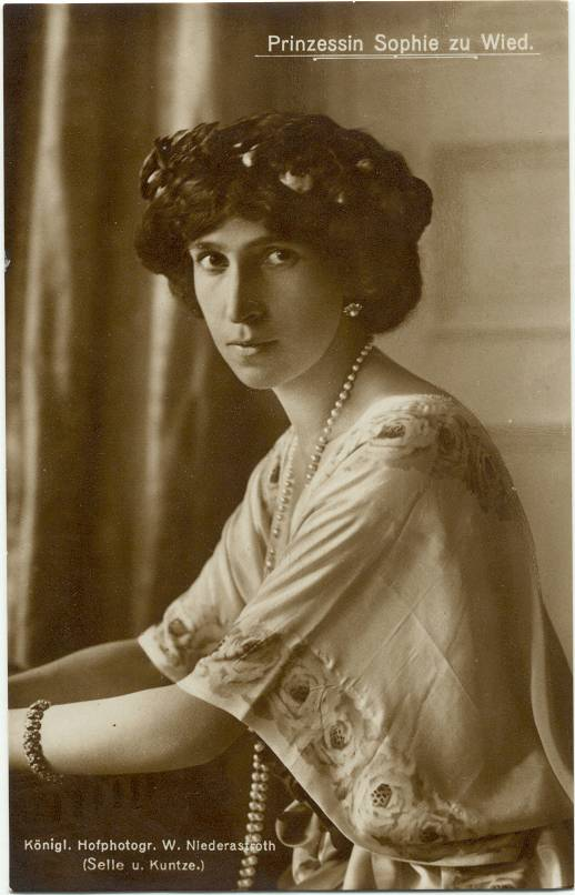 Sophie of Schönburg-Waldenburg, consort of William of Wied, Prince of Albania